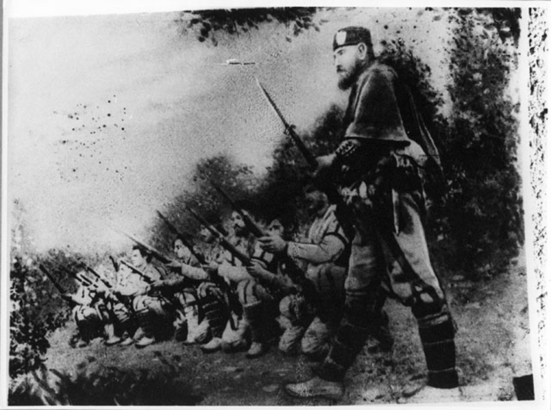 Cheta of bulgarian revolutionary from IMARO Luka Ivanov during training